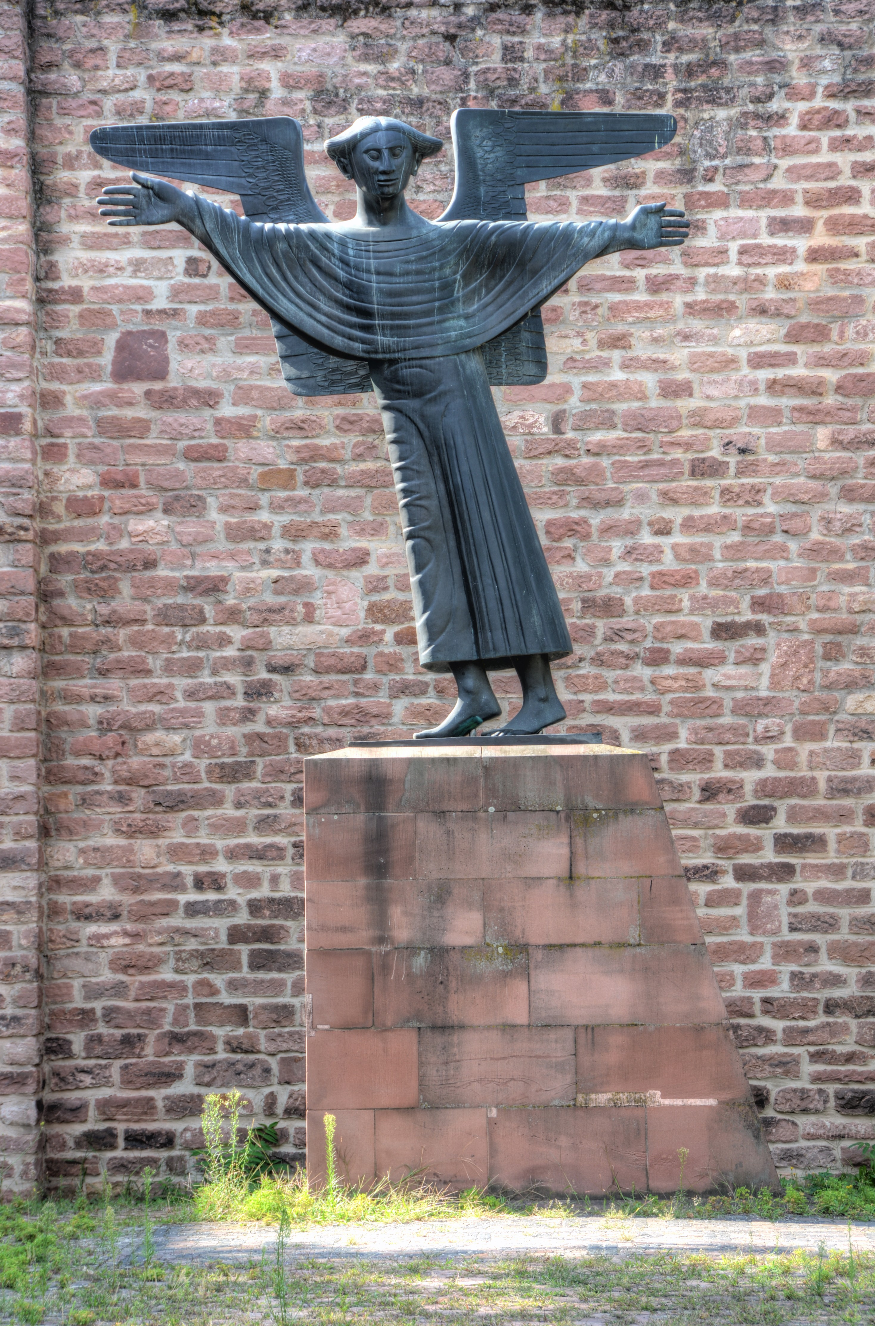 Friedensengel (Angel of Peace), Mannheim, Germany